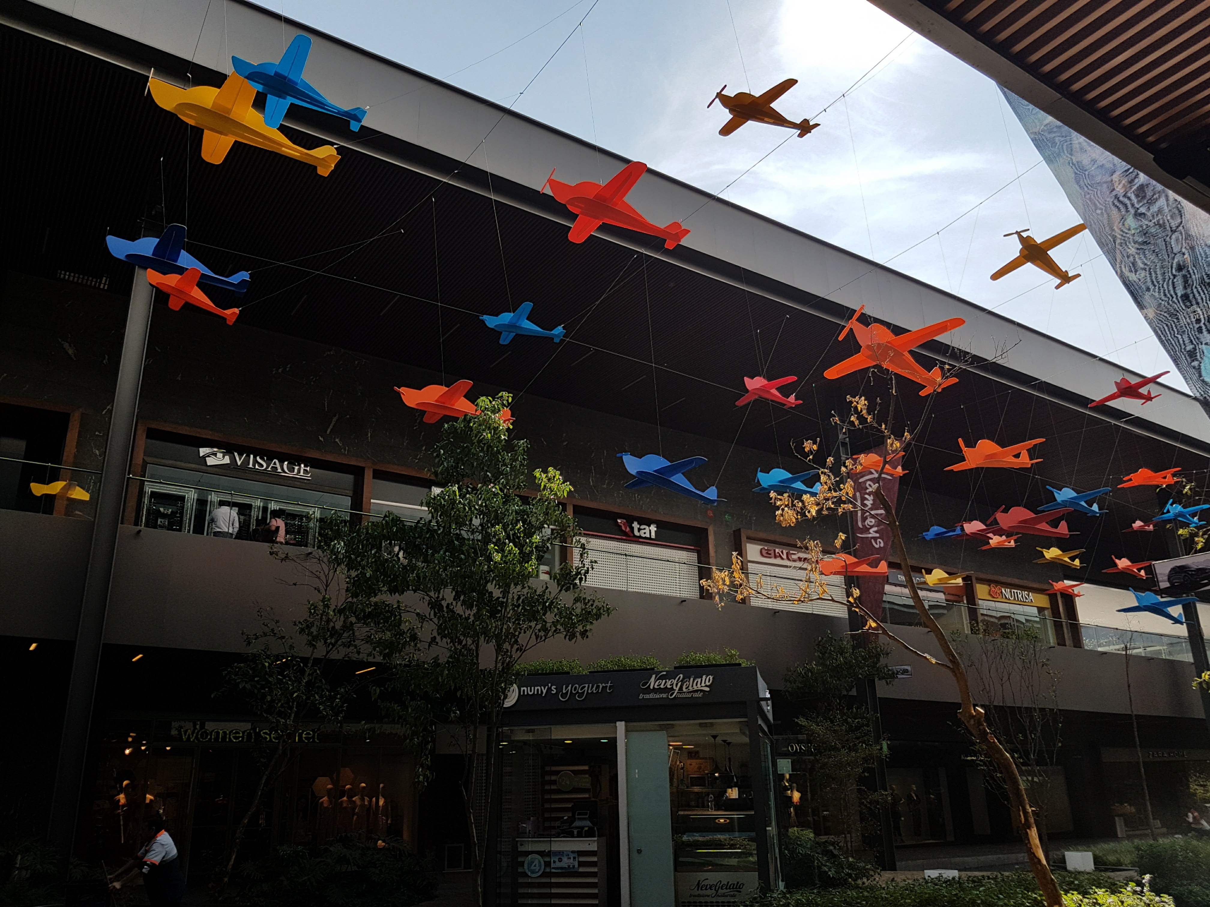 Colorful airplanes decorating the open area of Antea.